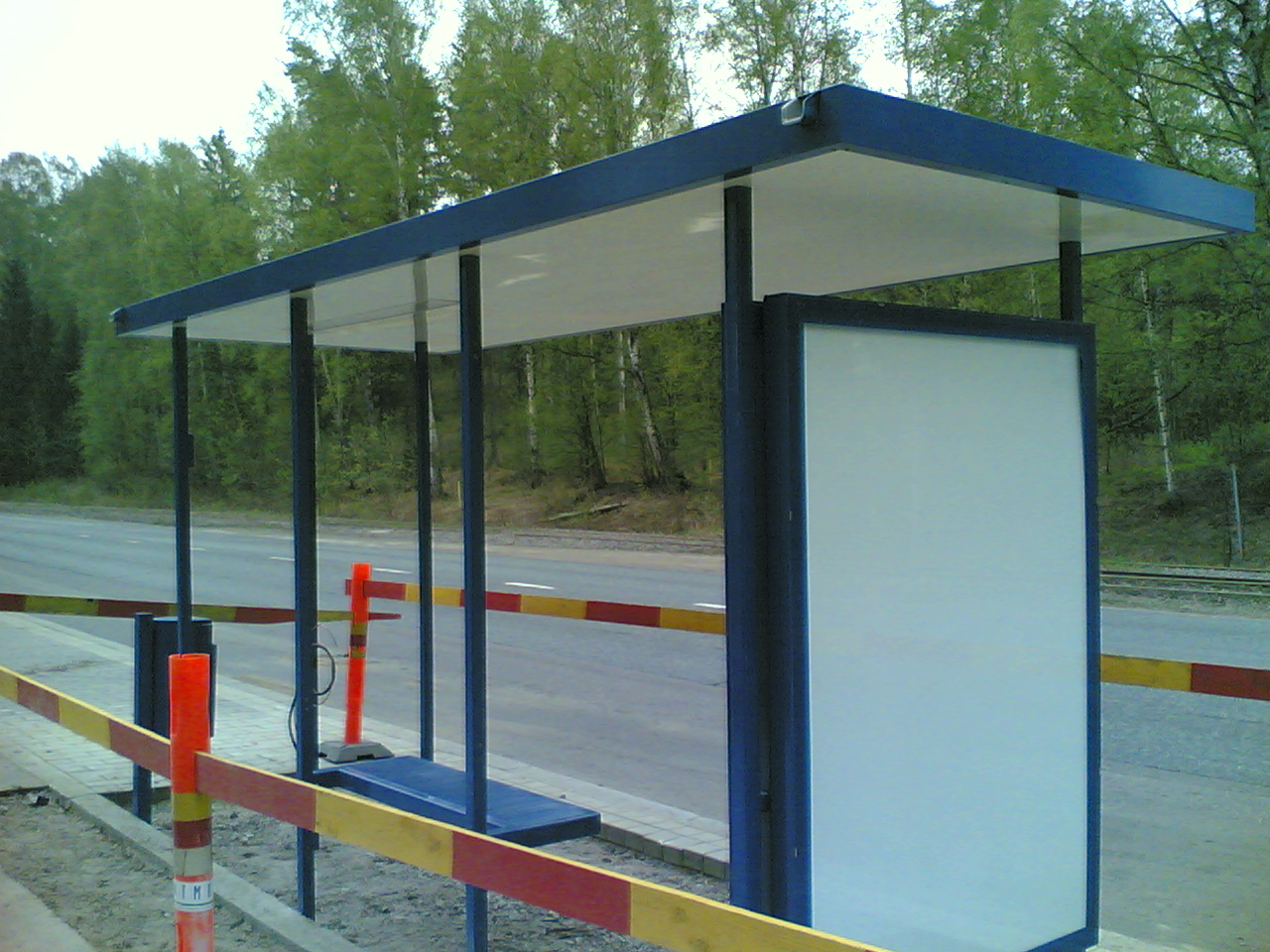 A Jokeri-line bus stop under construction